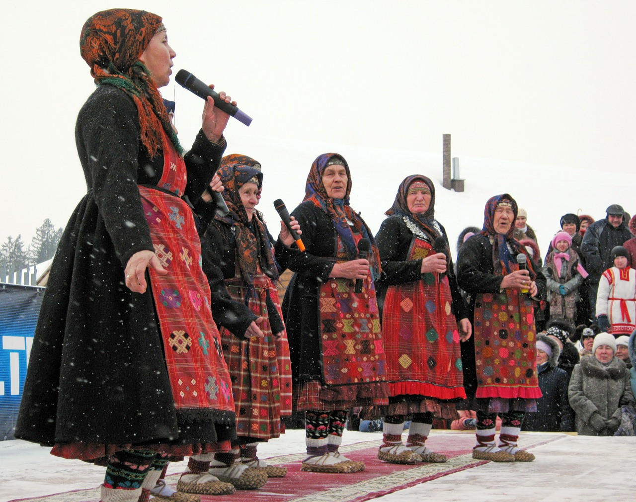 Buranovskiye Babushki